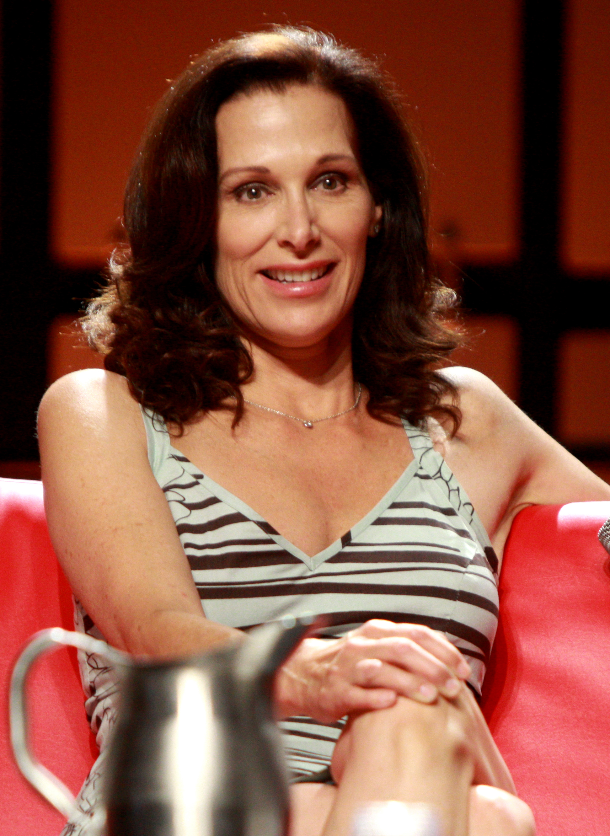 Julie Caitlin Brown at the 2013 Phoenix Comicon in Phoenix, Arizona.